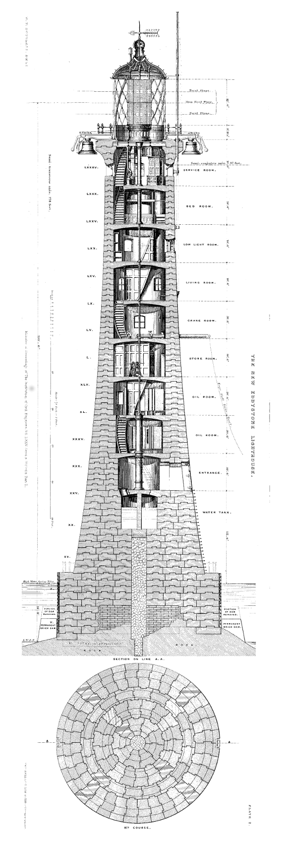 Original drawing of 4th Eddystone Lighthouse, designed by James Douglass and erected in 1884